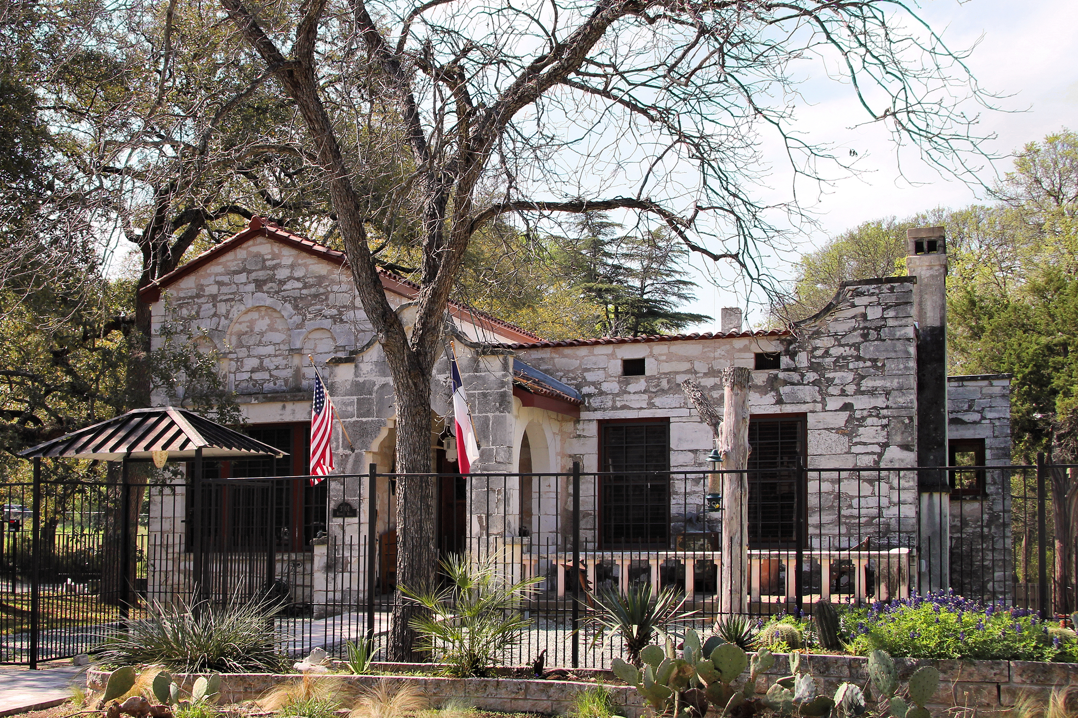 The James M. and Leana B. Walsh House in Tarrytown, Austin, Texas, United States. The house was listed on the National Register of Historic Places on February 5, 2014.